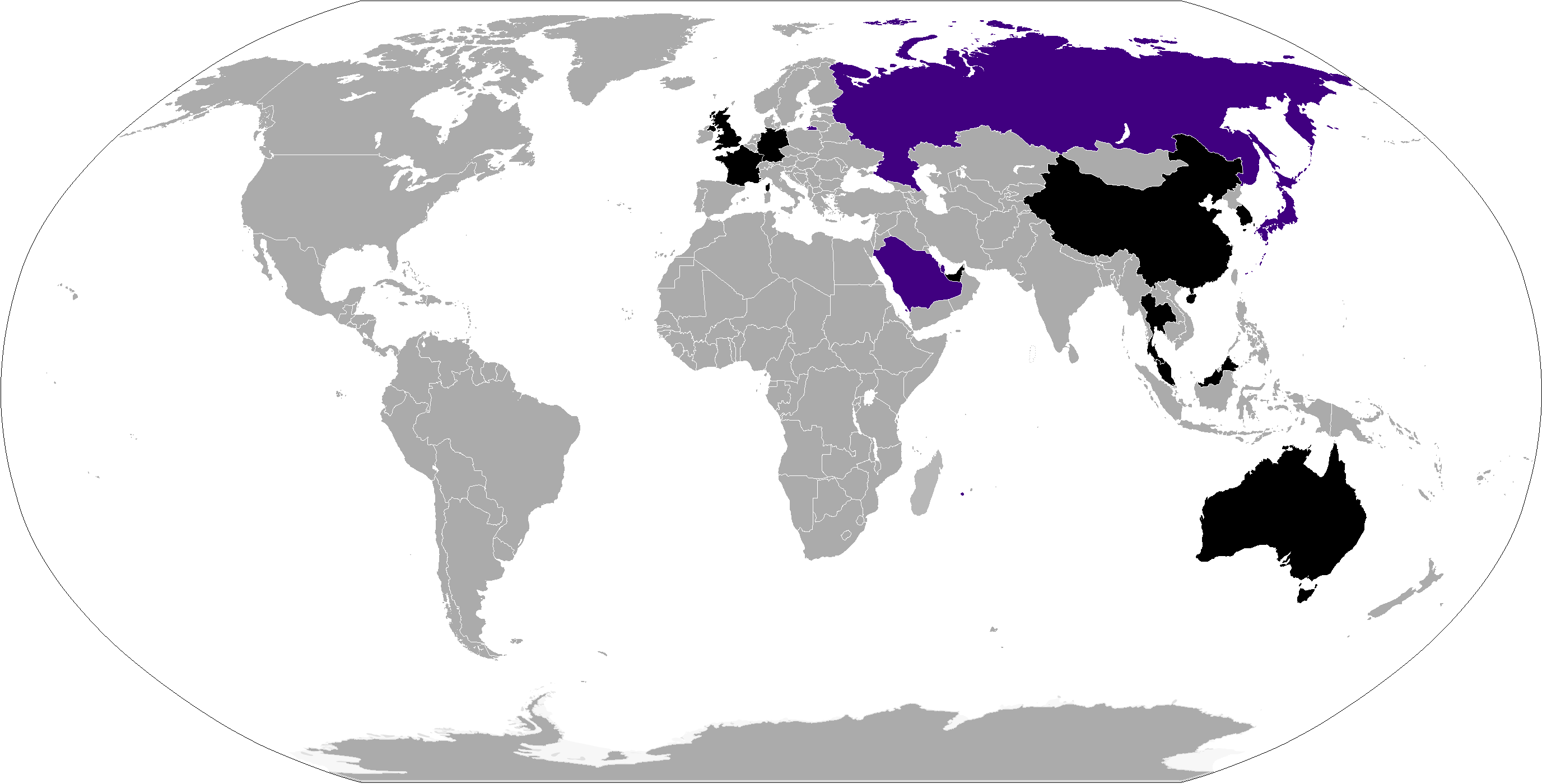 Countries with at least one A380中文（中国大陆）: 拥有空客A380的国家。